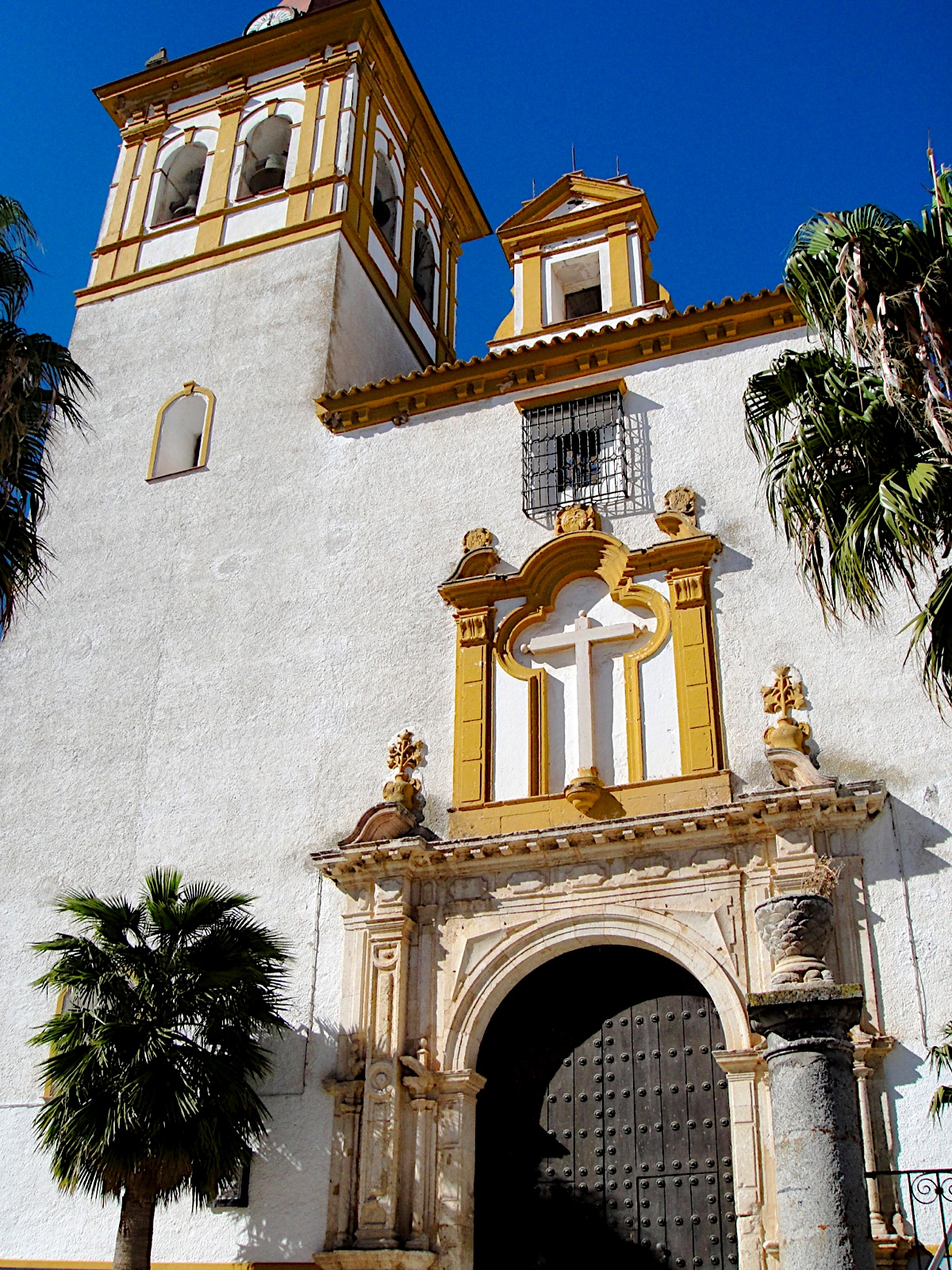 Iglesia de la Santa Cruz Real de Teba